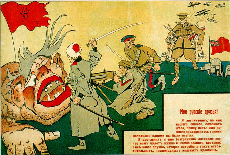 Poster issued by British intervention forces during the Russian Civil War. The text is as follows: "My Russian friends! I, an Englishman, in the name of our Allied cause, ask you to endure for some more time, courageous as you've always been. I have delivered and will deliver infinitely everything you need; what is more, I will deliver you new weapons to exterminate those repulsive bloodthirsty Red monsters".